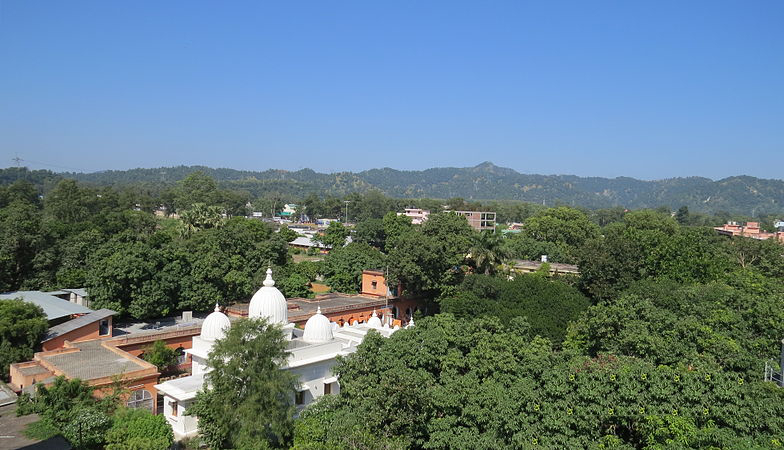 A Panoramic View of the Sevashrama